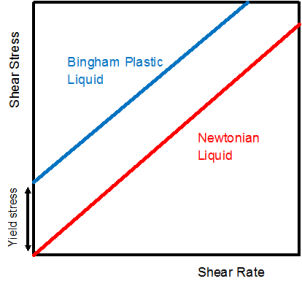 Bingham Plastic illustration, shear stress versus shear rate